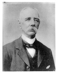 portrait of David Thompson Seymour